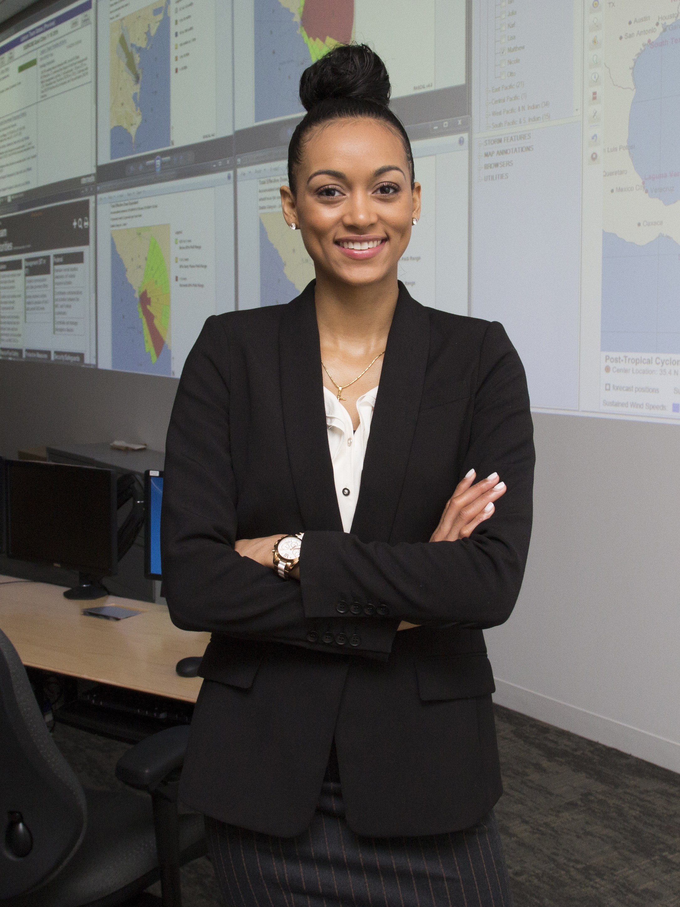 Miss USA 2017 winner Kára McCullough at the United States Nuclear Regulatory Commission, who she works for.